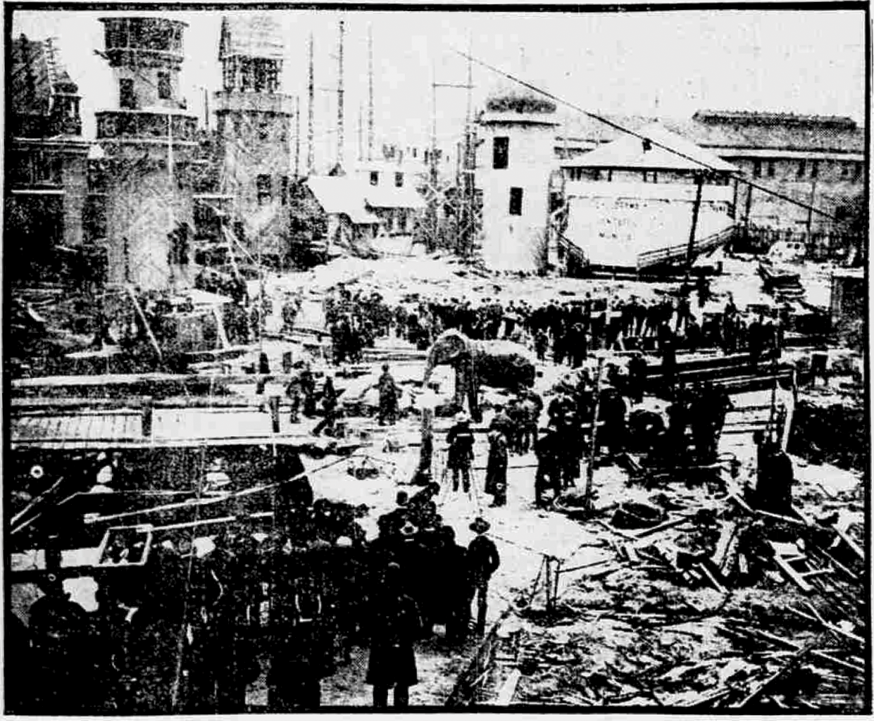 A photograph from a January 11, 1903 St. Louis Republic article about the the January 4, 1903 electrocution of Topsy the elephant in an event to raise publicity about the opening of the new Coney Island amusement park "Luna Park" (at this point still under construction). The newspaper account says that Topsy refused to cross the bridge over the lagoon to the execution platform even when bribed with carrots and apples. She had to be wired up on the spot where she stood.